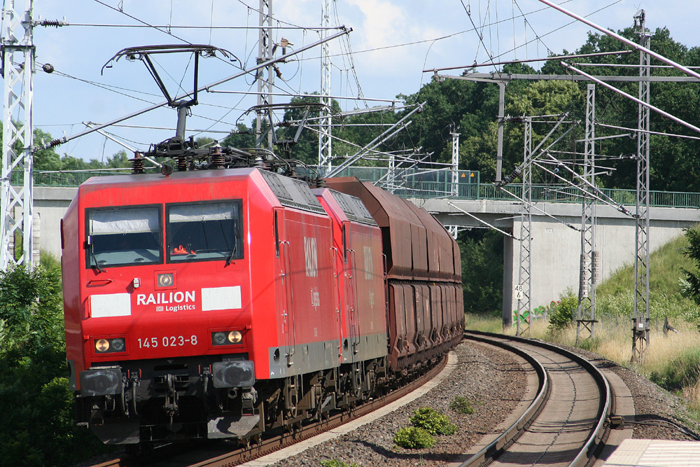 Two DB class 145 locomotives pull a freight train in the train station of Paulinenaue, Berlin-Hamburg high-speed rail line